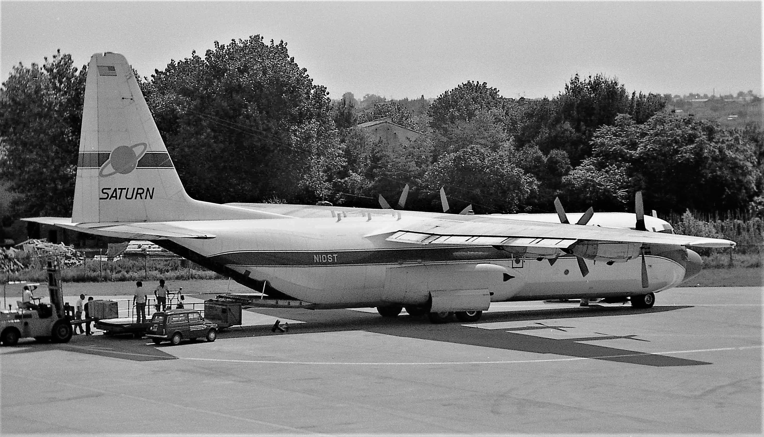 Italy, Pisa International Airport. Saturn Airways Lockheed L-100 Hercules-382E, N10ST, c/n 4383. Delivered to Saturn Airways in 1970-05-26 with name “Rudolph”. In December 1976 merged with Trans International Airlines in October 1979 was transferred to Transamerica Airlines. Bought by SAT Southern Air Transport in September 1987 and registered N910SJ. Delivered to Transafrik International in March 2005 and registered 5X-TUF.